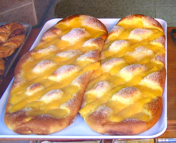 Coca de crema a Les, Vall d'Aran. Custard coca, taken in Les, Val d'Aran, Catalonia, Spain.